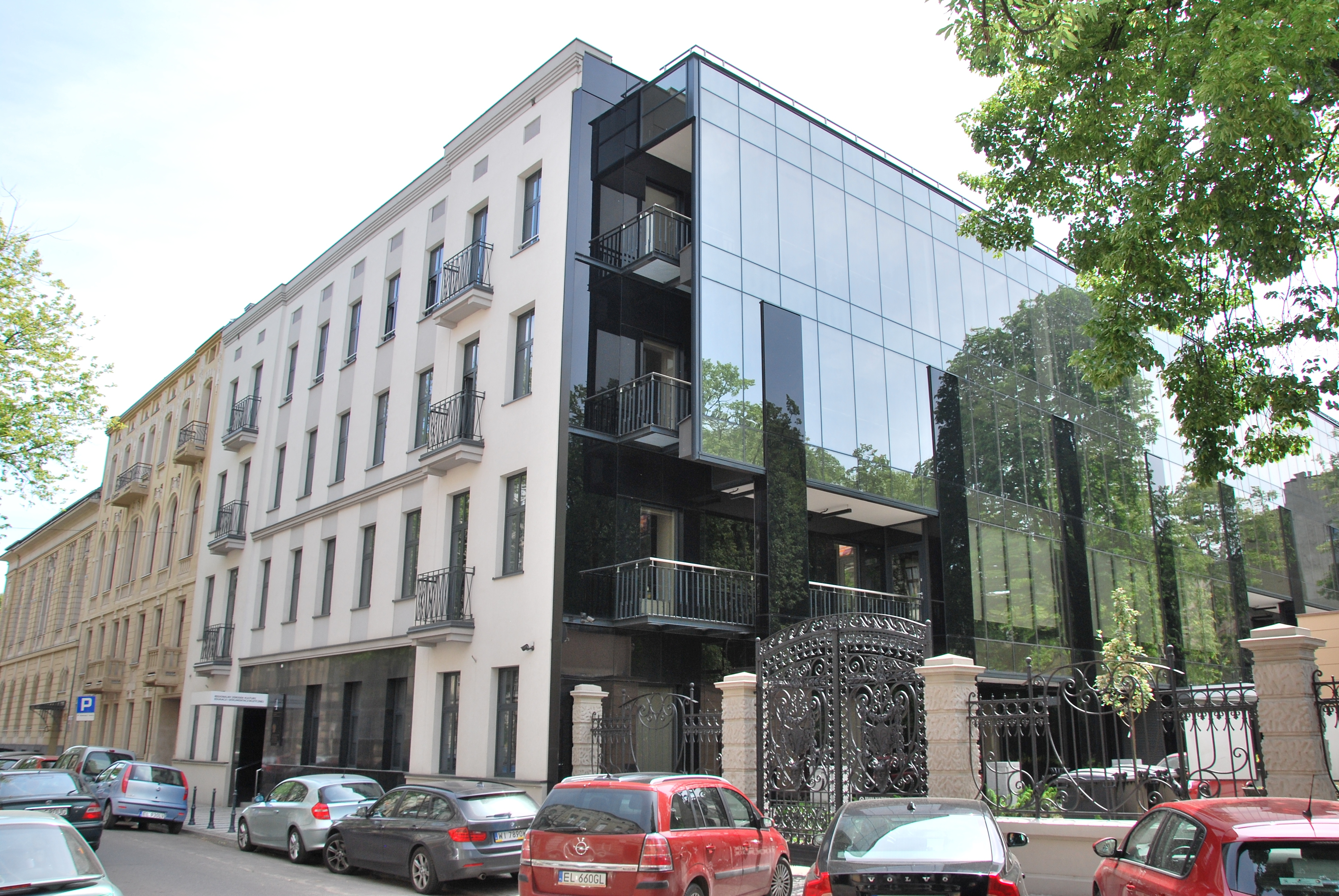 Academy of Music in Łódź - Regional Centre of Culture, Education and Musical Documentation, 1 Maja Street